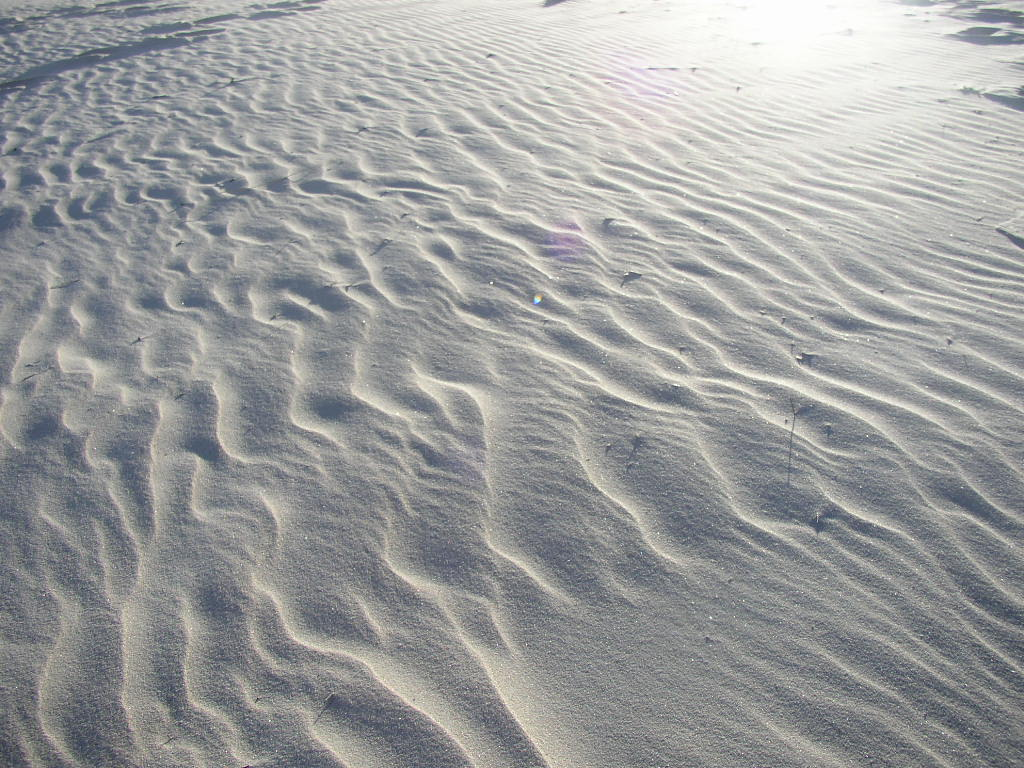 Sand with ripple marks